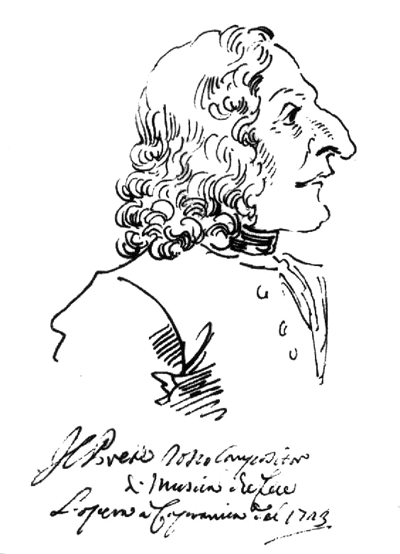 Caricature of Antonio Vivaldi by Pier Leone Ghezzi in 1723. Text translates to "The Red Priest, composer of music who made the opera at the Capranica of 1723."